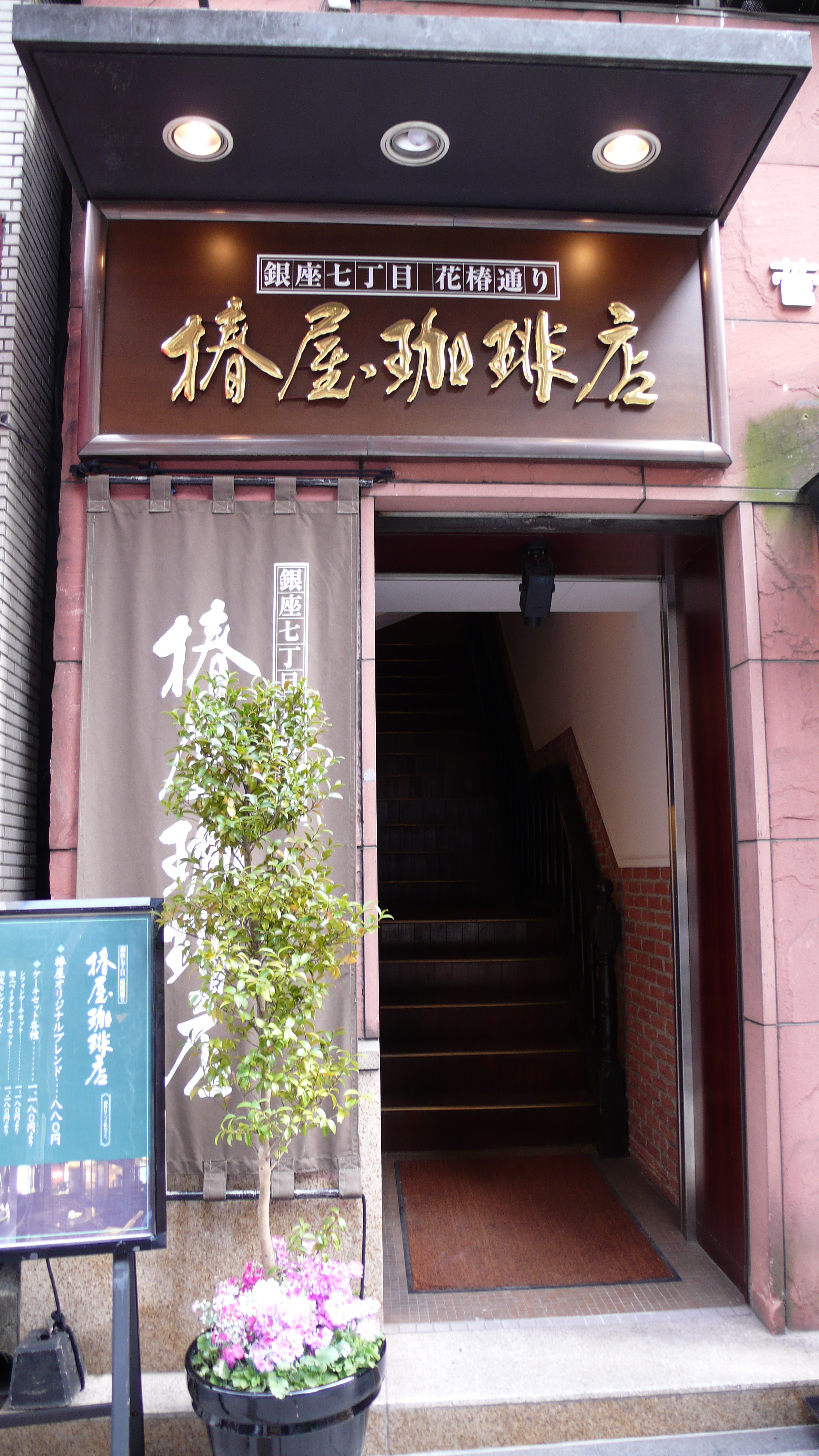 Tsubakiya coffee shop, in Ginza, Tokyo Japan